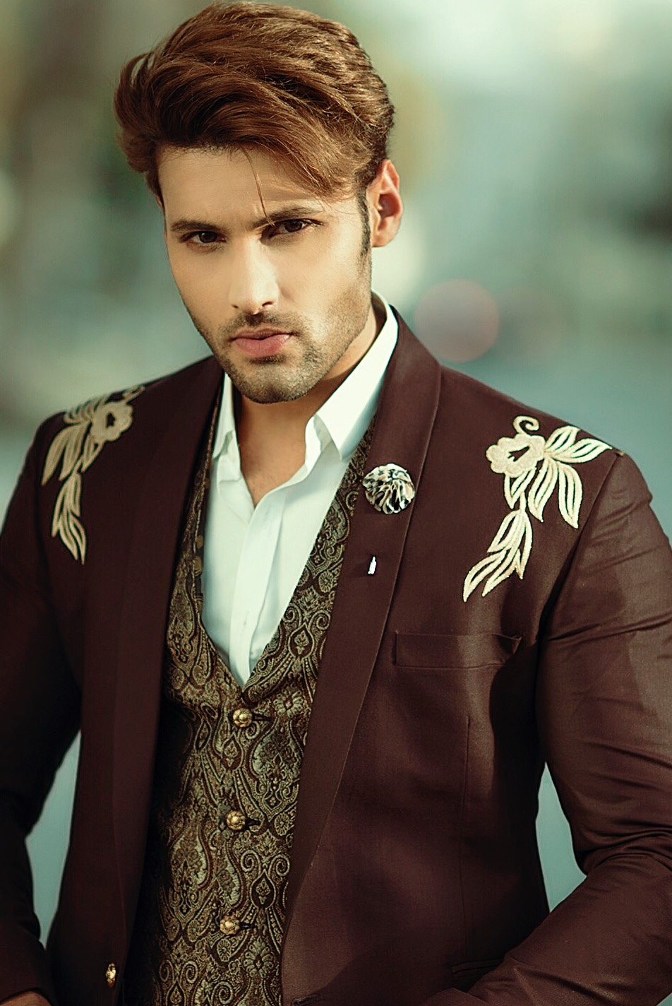 TV/Film Actor